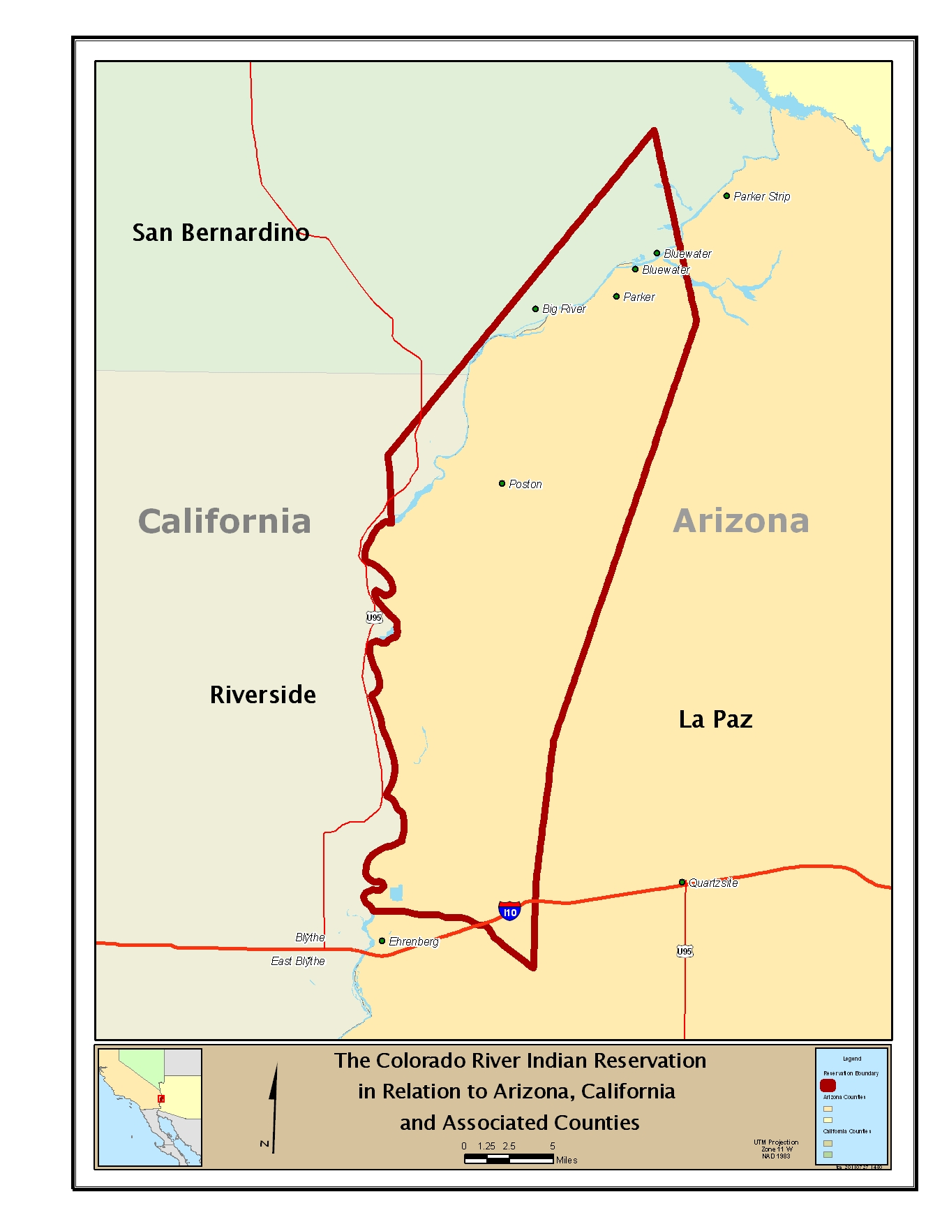 Location Map of the Colorado River's Indian (Indigenous peoples/Native American) Reservations' areas. Boundaries verified in comparison to figure 2 of [1]: "STATUS OF MINERAL RESOURCE INFORMATION FOR THE COLORADO RIVER INDIAN RESERVATION ARIZONA AND CALIFORNIA", Administrative Report BIA-50 1978, Jocelyn A. Peterson U.S. Geological Survey; L. G. Nonini U.S. Bureau of Mines, Prepared by U.S. Geological Survey and U.S. Bureau of Mines for U.S. Bureau of Indian Affairs. Road positions verified via [2] at Colorado River Indian Tribes website